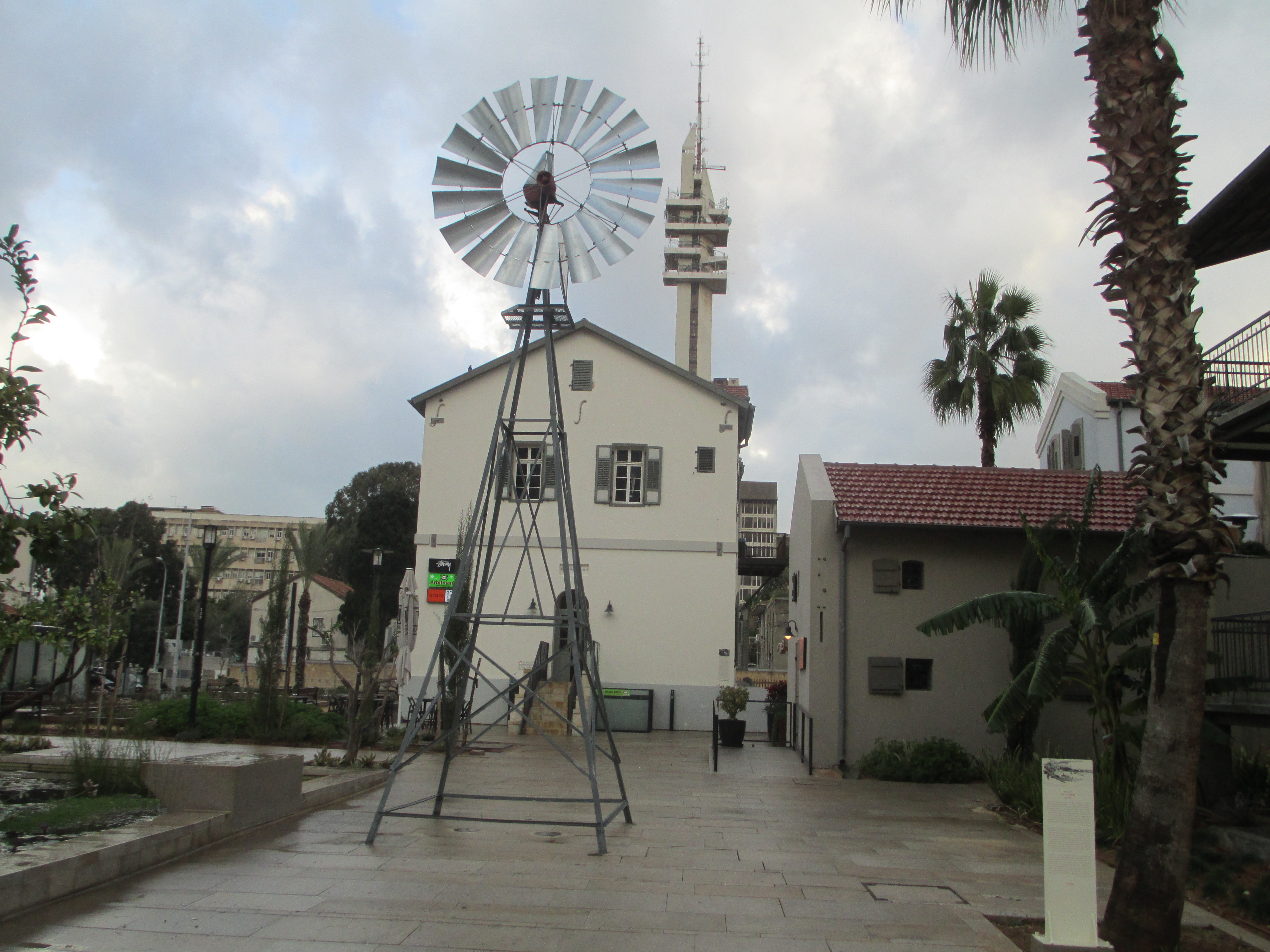 דגם משאבת מים בשרונה